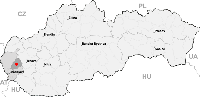 map of Slovakia, city of Modra highlighted